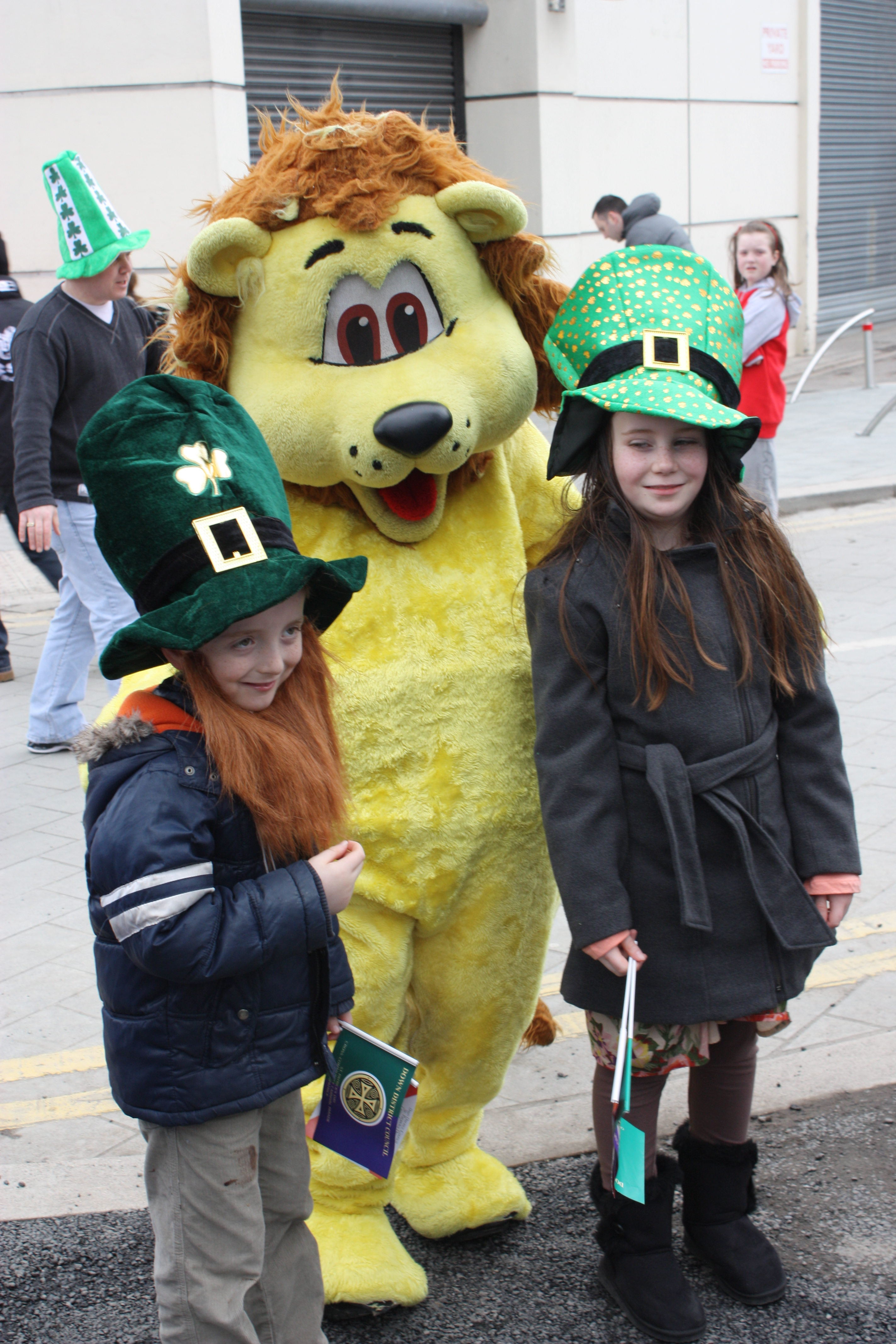 St Patrick Square, Downpatrick, County Down, Northern Ireland, March 2011